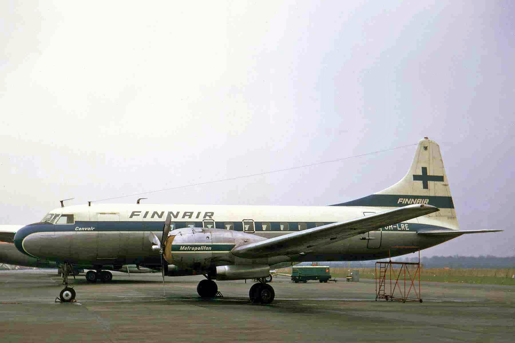 A Convair CV-440 aircraft (OH-LRE) of Finnair at London Gatwick Airport.